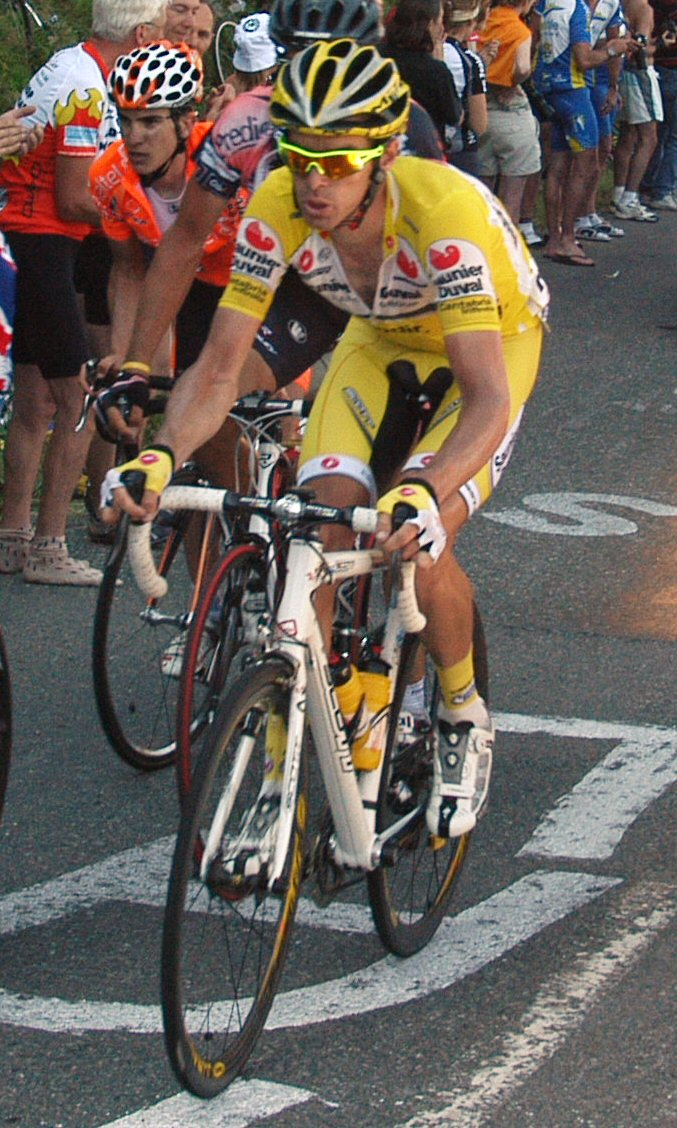 David Millar at stage 7 of the Tour de France 2007 on the Col de la Colombière.